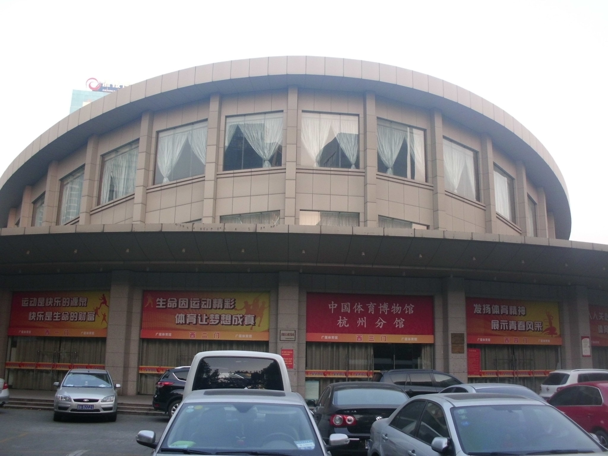 Hangzhou Gymnasium